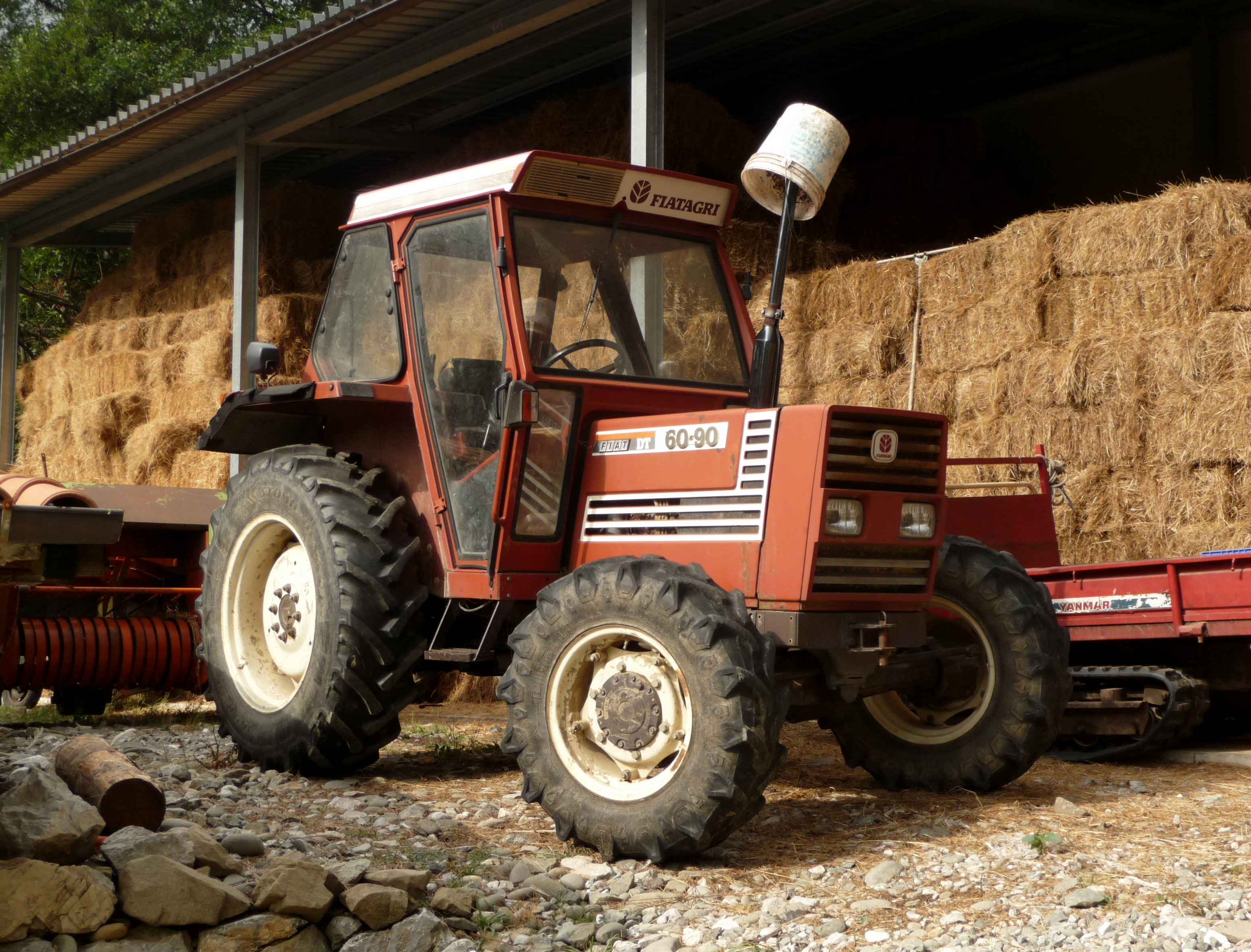 Tractor Fiatagri 60-90